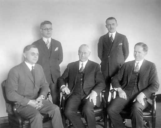 Stephen Tyng Mather (first director of the United States National Park Service) and his staff in Washington, D.C., 1927 or 1928. From left to right: Arno B. Cammerer, Arthur E. Demaray, Stephen T. Mather, George A. Moskey and Horace M. Albright.